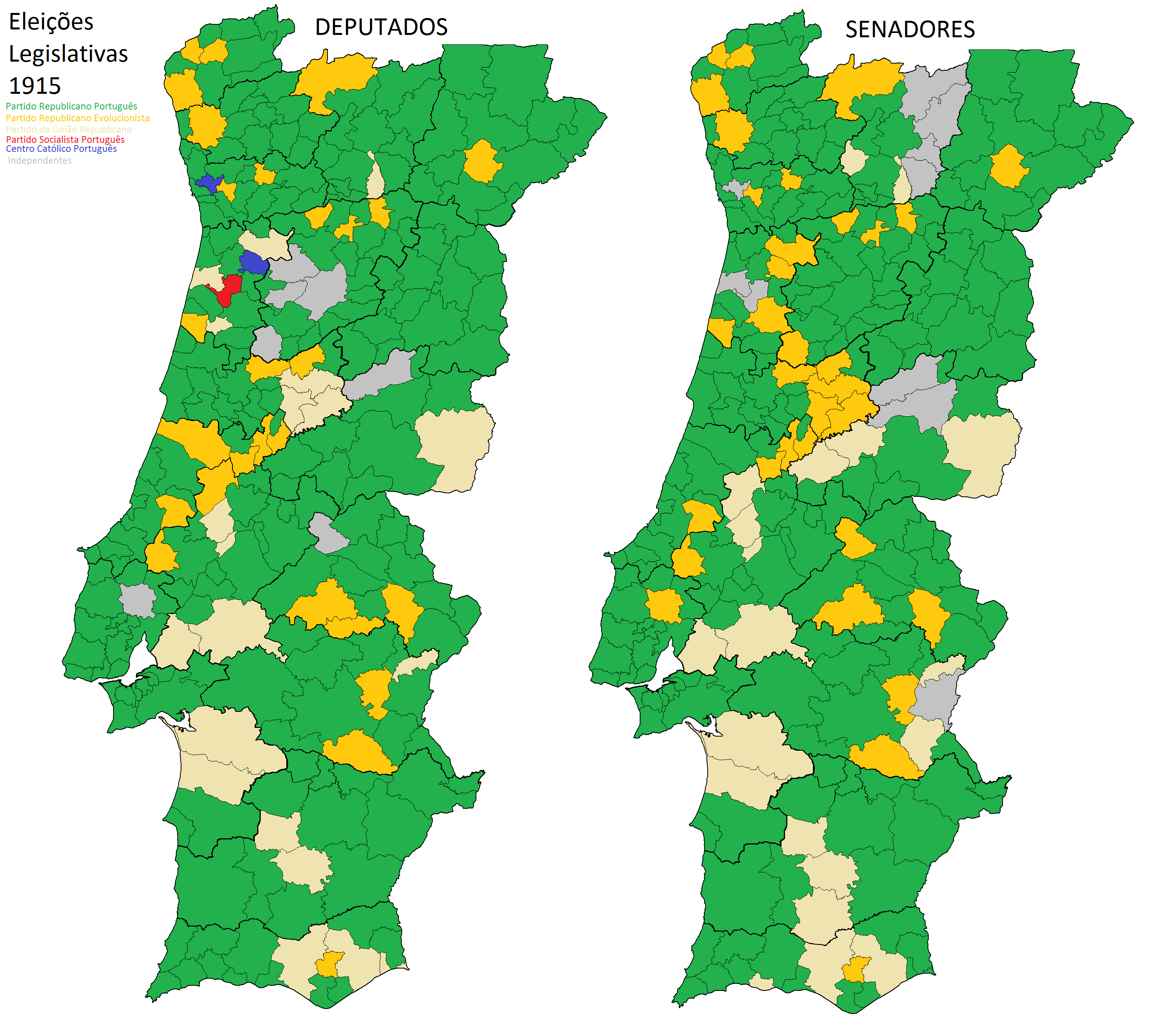 Most voted party, by municipality, in Mainland Portugal, to the Chamber of Deputies and Senate. Elections 1915.